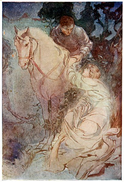 GWENNOLAÏK AND NOLA - Illustration from Legends & Romances of Brittany by Lewis Spence, illustrated by W. Otway Cannell.